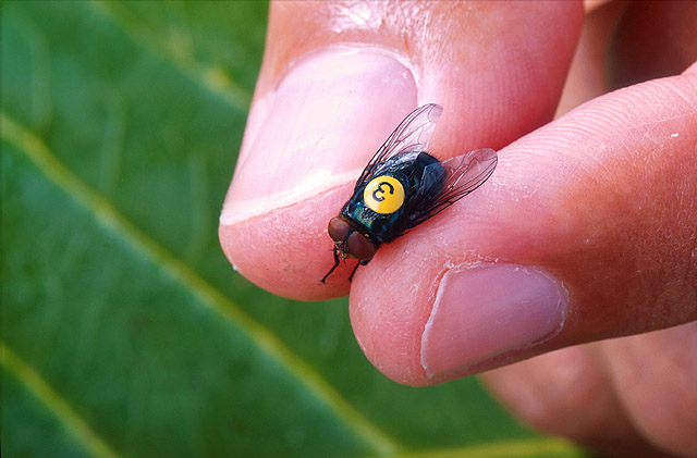 A sterile male Cochliomyia hominivorax, the primary screwworm labeled to study the dispersal, behavior, and longevity.